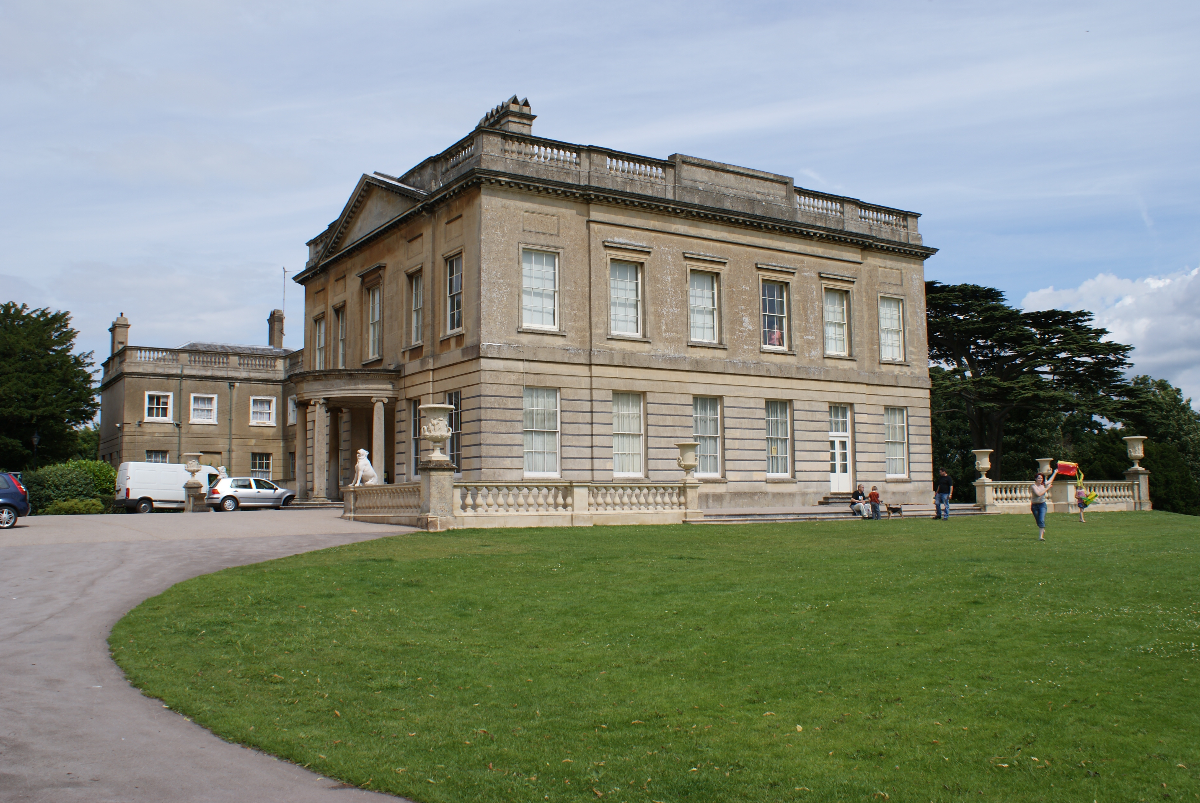 The mansion house at Blaise Castle Estate, in mid-July en:2008.